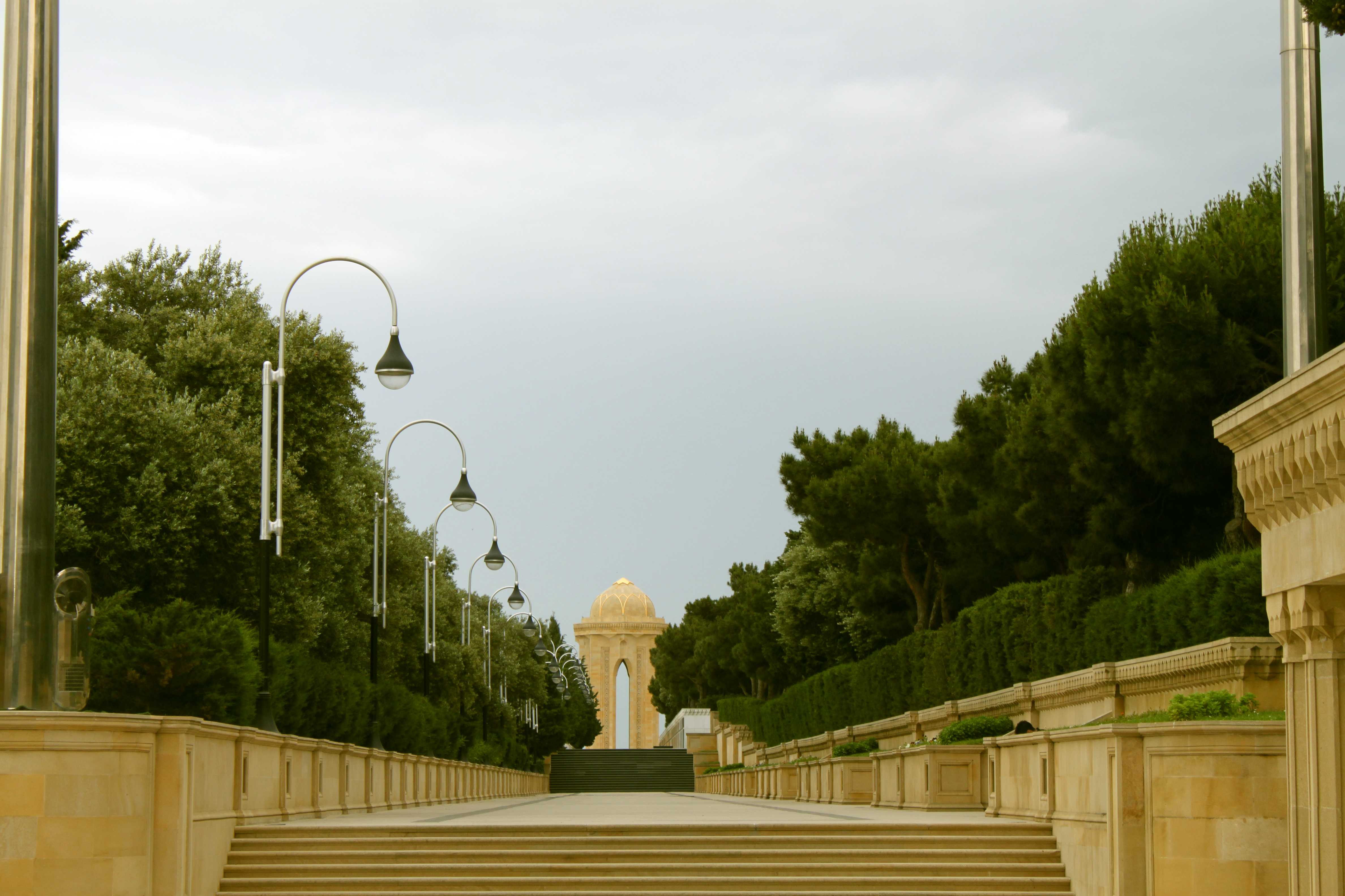 Martyrs' Lane common view